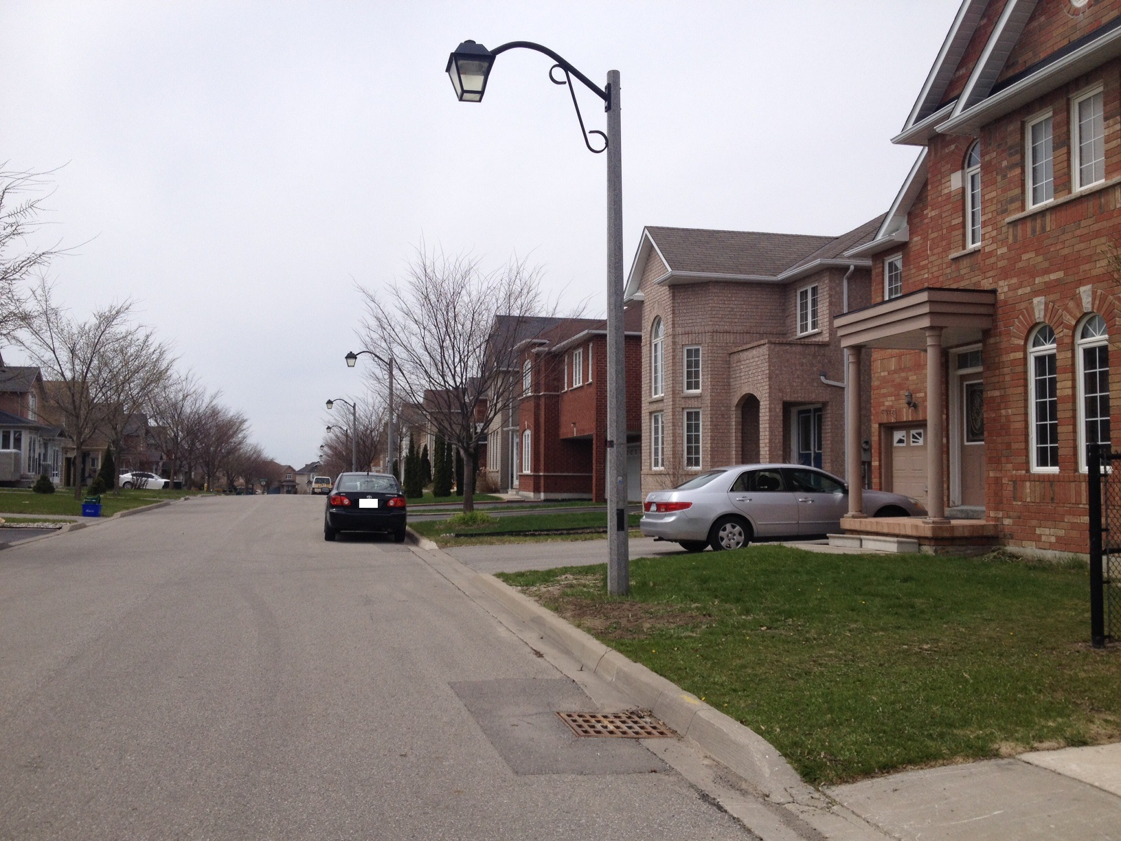 markham